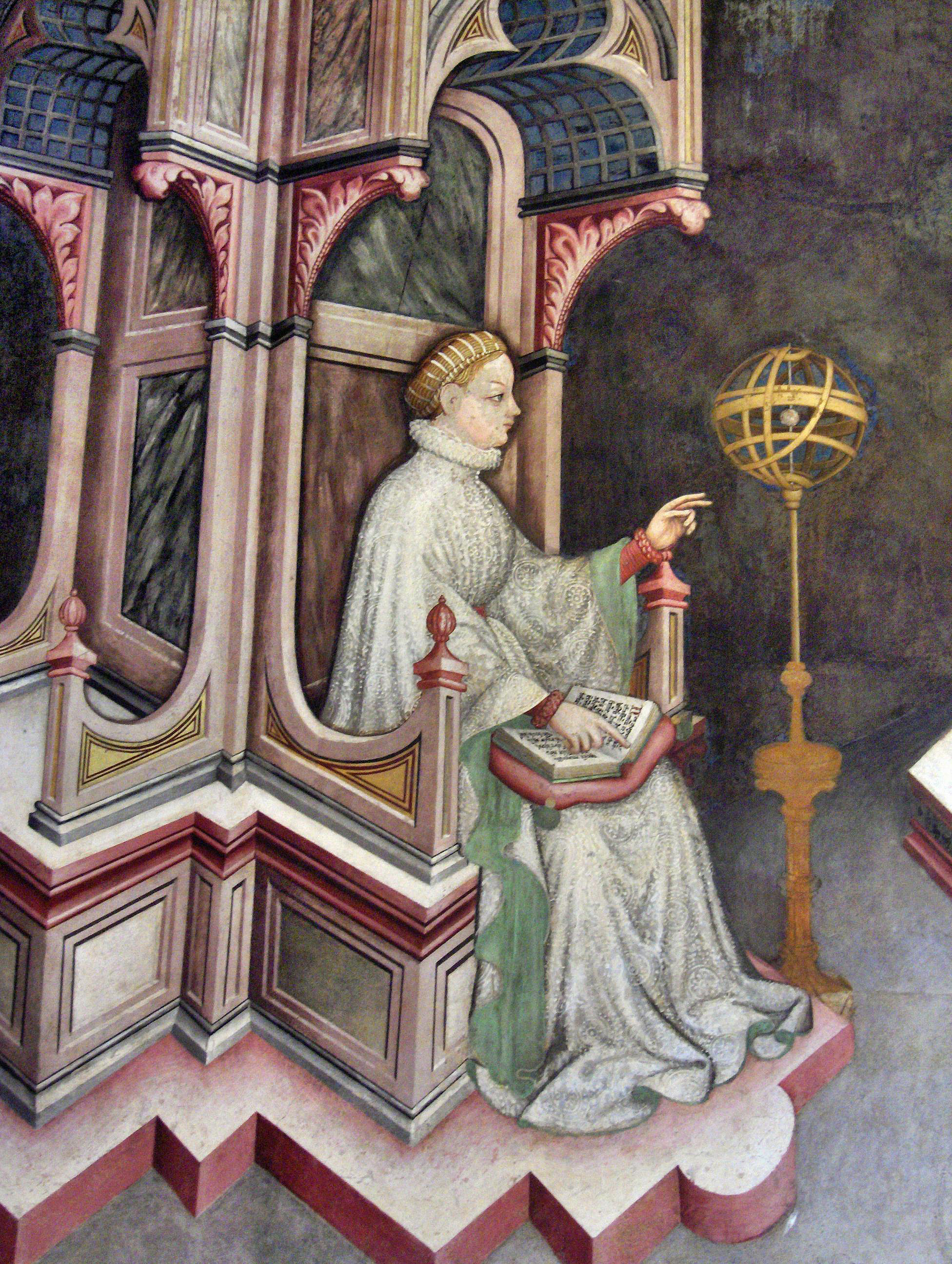 Astronomy. Fresco by Gentile da Fabriano. Hall of the Liberal Arts and of the Planets, Trinci palace, Foligno, Italy